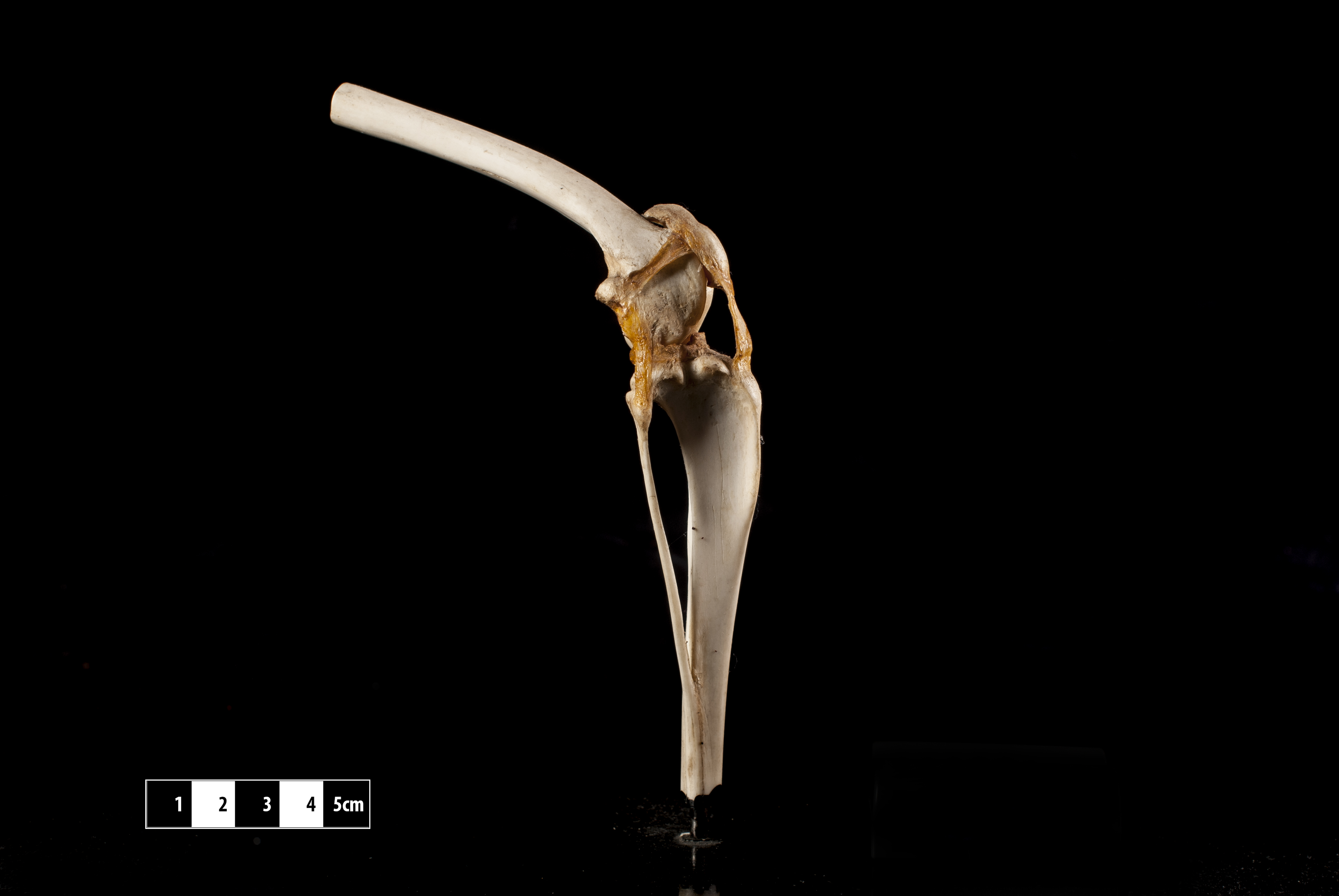 Knee joint of dog. Canis lupus familiaris Technique of dissection and freeze-drying. Piece showing knee joint of dog on display at the Museum of Veterinary Anatomy, FMVZ USP. This file was published as the result of a partnership between the Museum of Veterinary Anatomy FMVZ USP, the RIDC NeuroMat and the Wikimedia Community User Group Brasil. This GLAM project is reported. Photography: Museum of Veterinary Anatomy FMVZ USP. Author: Wagner Souza e Silva.